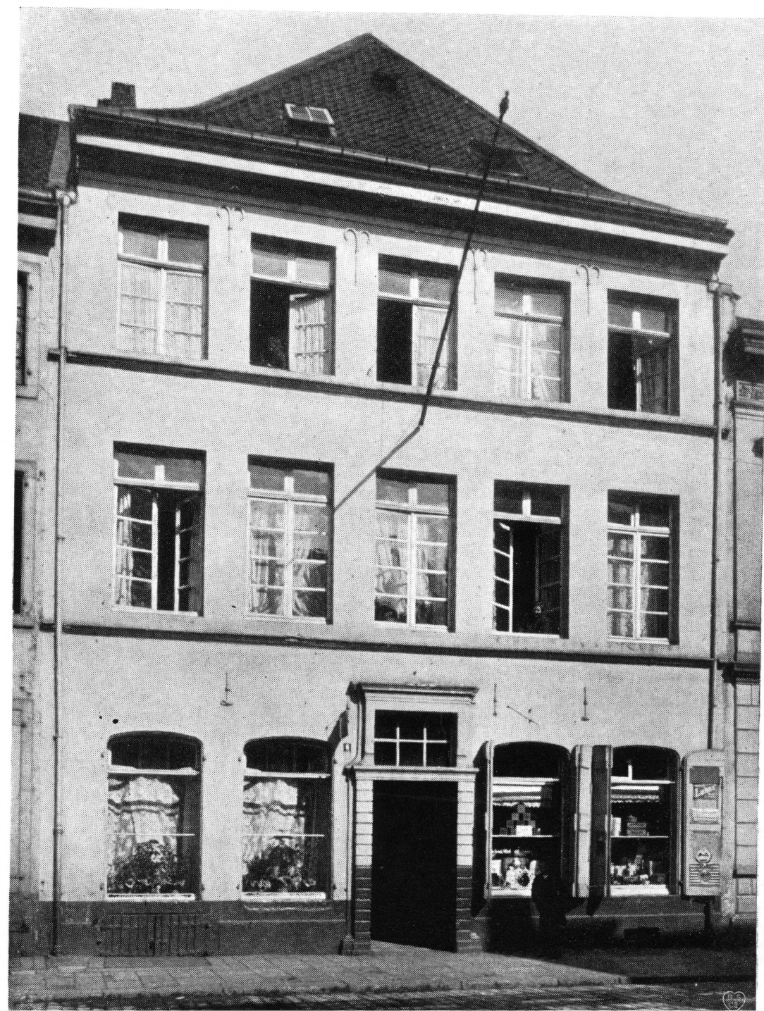 t